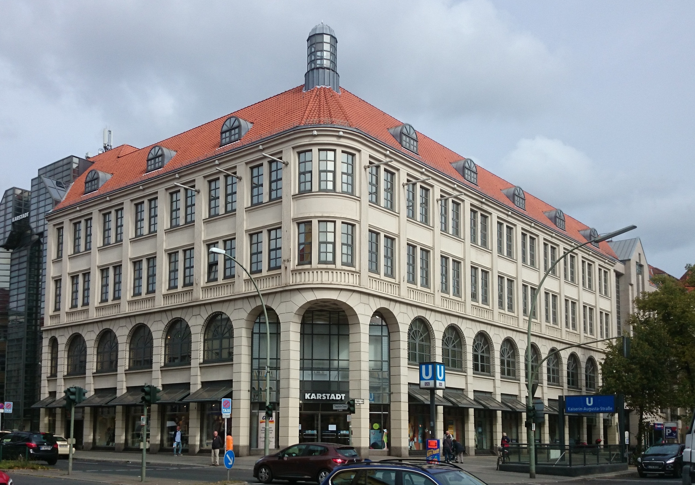 Autumn in Berlin